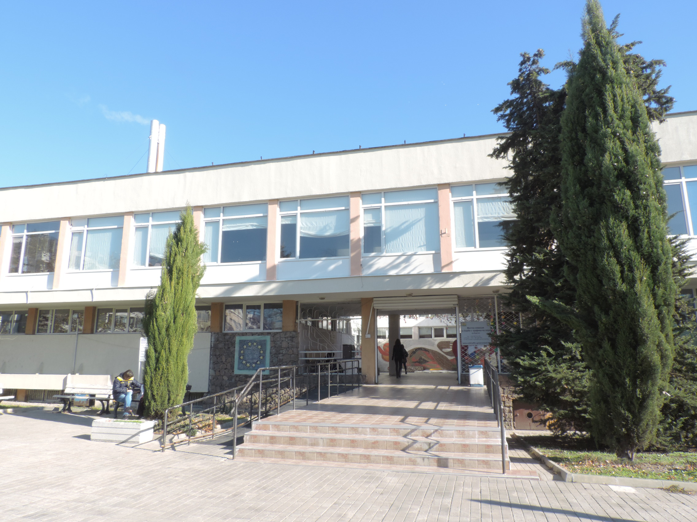 Youth culture centre, located on William Gladstone Street in Burgas, Bulgaria